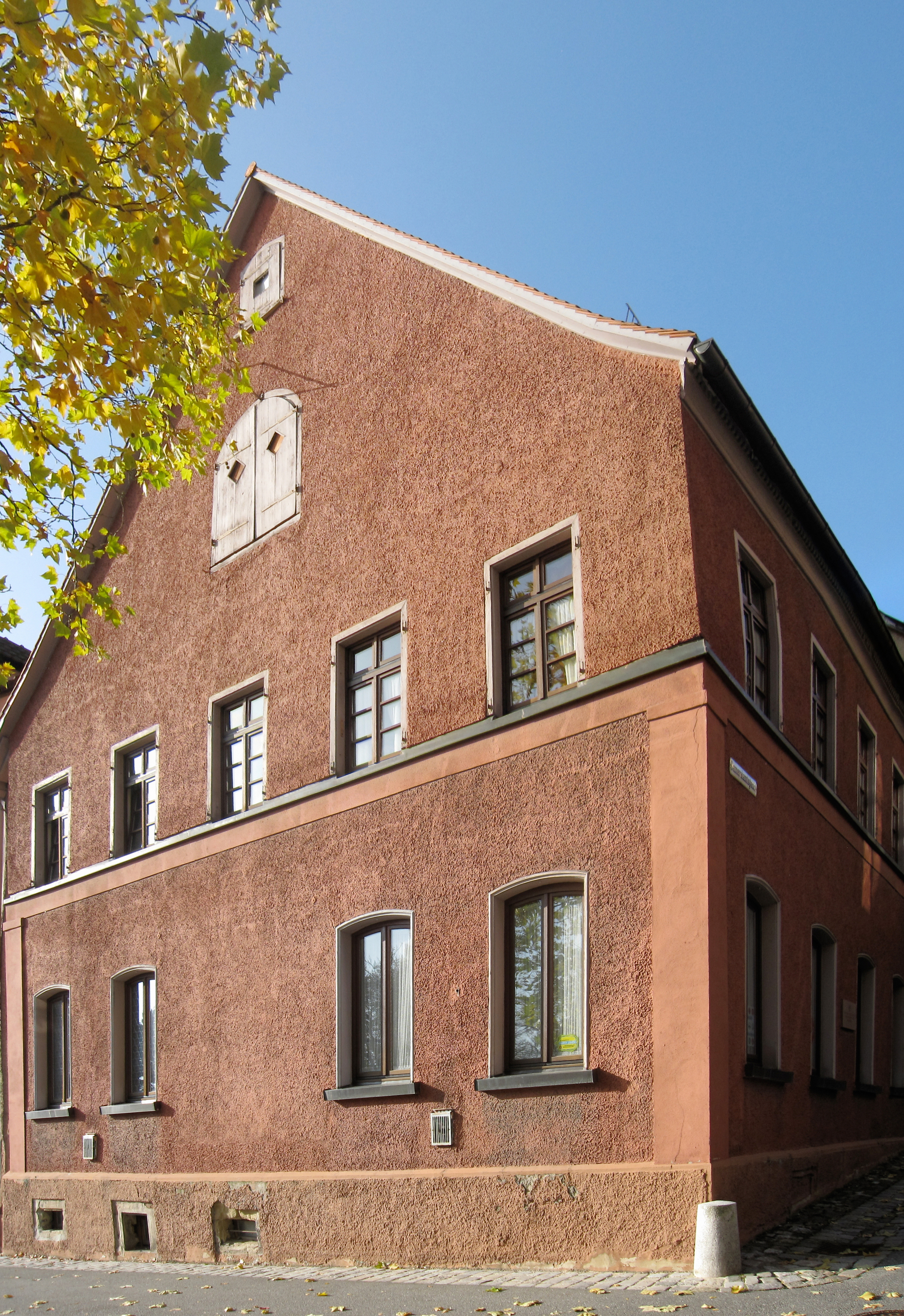 Former Synagogue in Rottweil Panoramic view